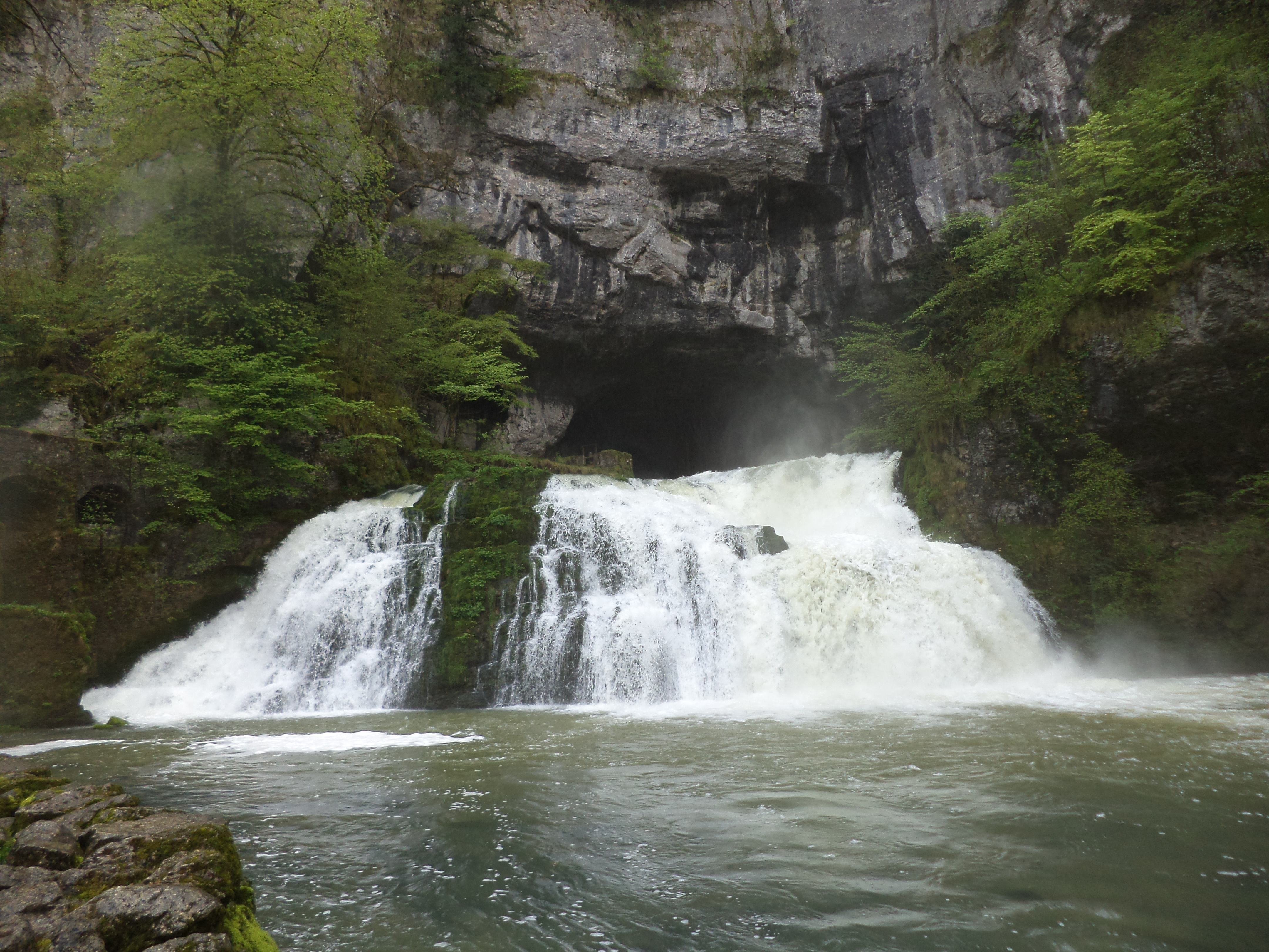 The source of the river Lison in the French Jura